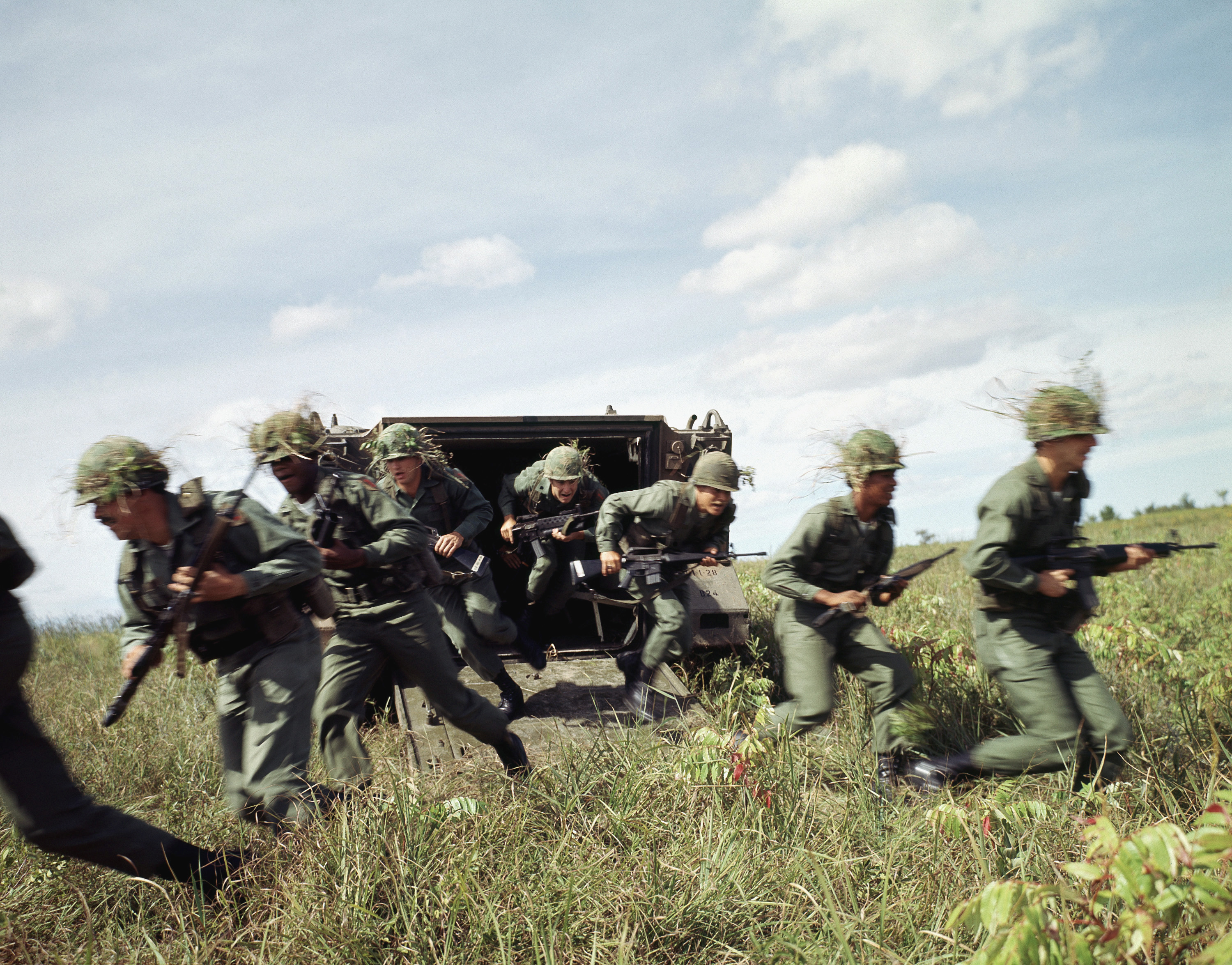 US Army infantrymen armed with M16A1 rifles (two equipped with M203 grenade launchers) unload from an M113 armored personnel carrier during a training exercise.